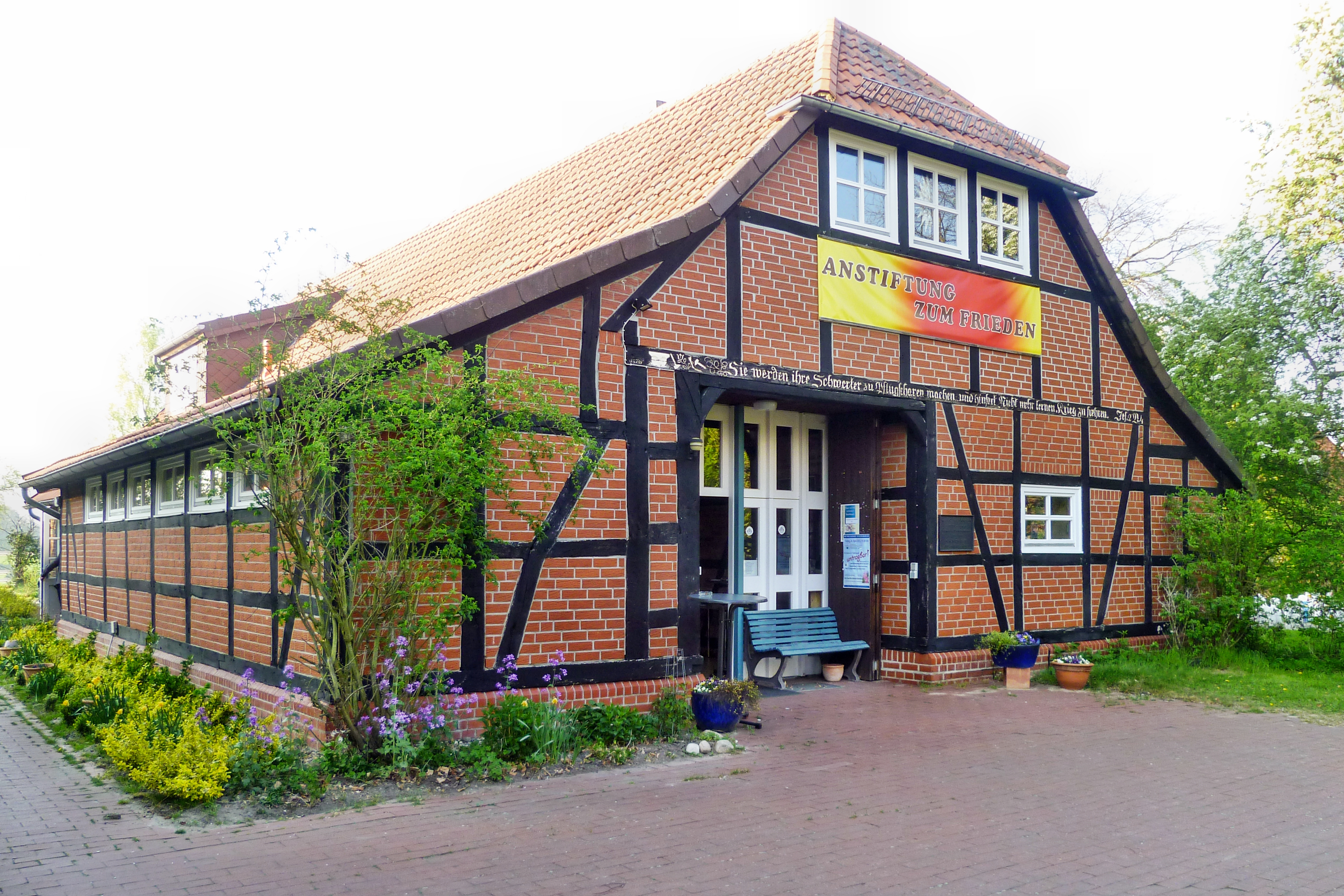 Anti war house in Sievershausen